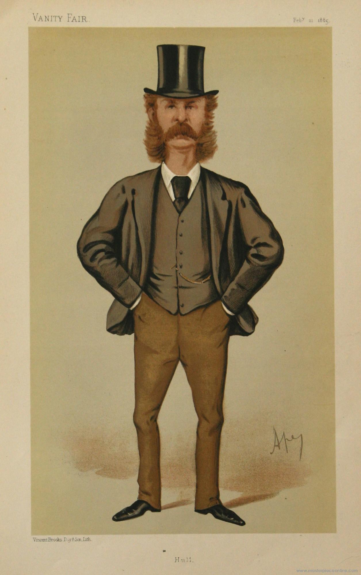 Statesmen No.459: Caricature of Mr CH Wilson MP. Caption reads: "Hull"